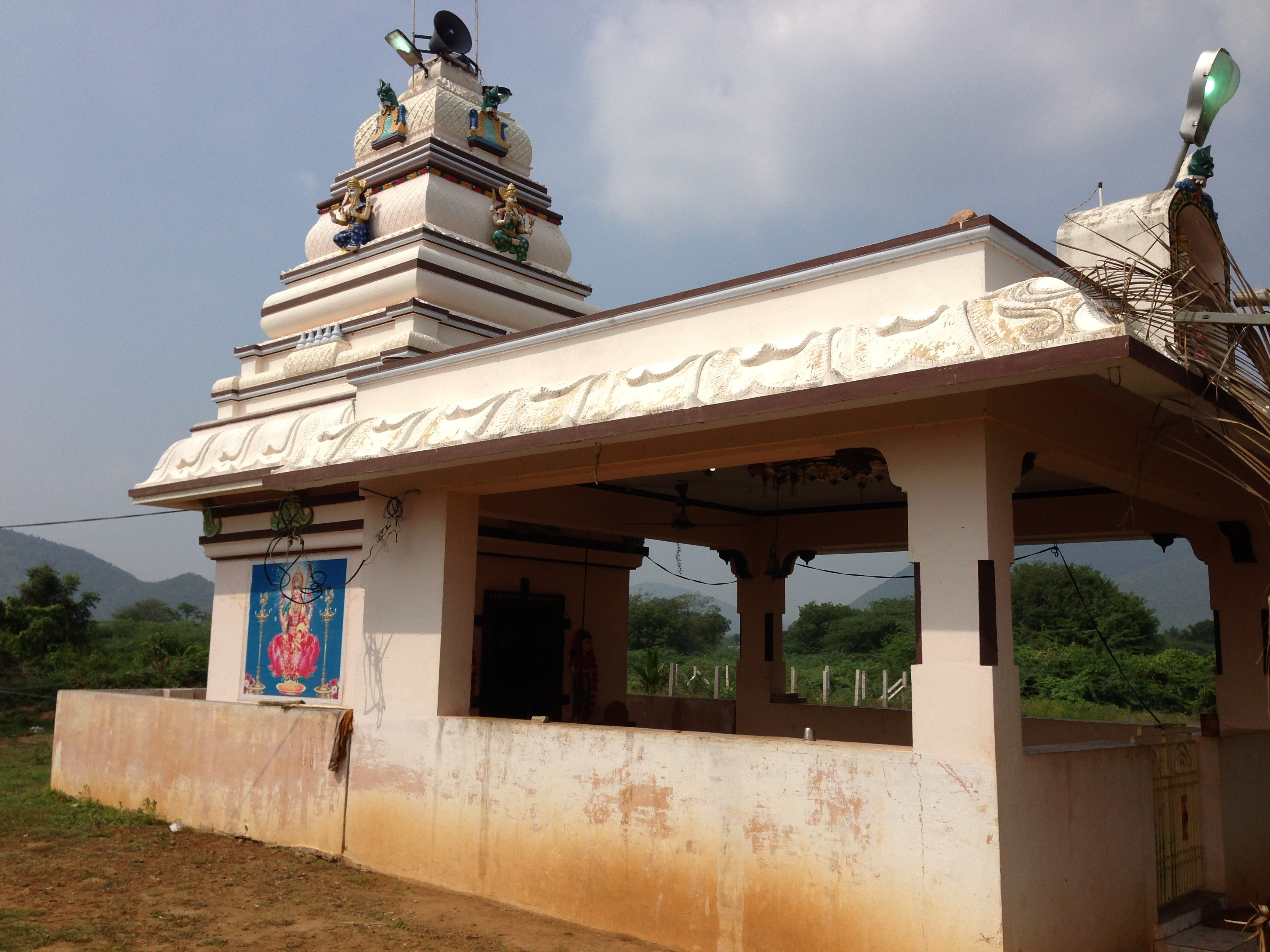 Manchalamma Temple in Adapur Kadapa